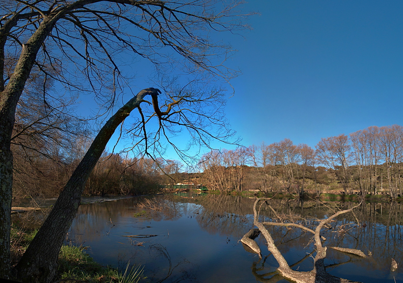 The Jerte river in the NE outskirts of Plasencia